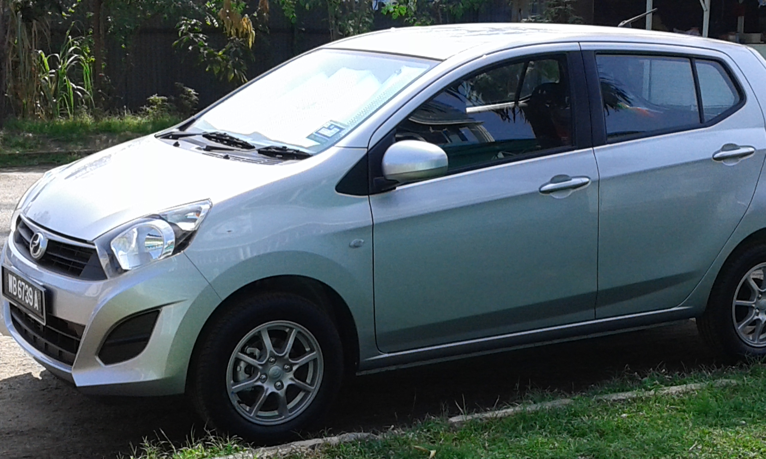 Perodua Axia Rebadge from ASTRA Toyota Agya/ASTRA Daihatsu Ayla, The photo was taken after buy a souvenir.